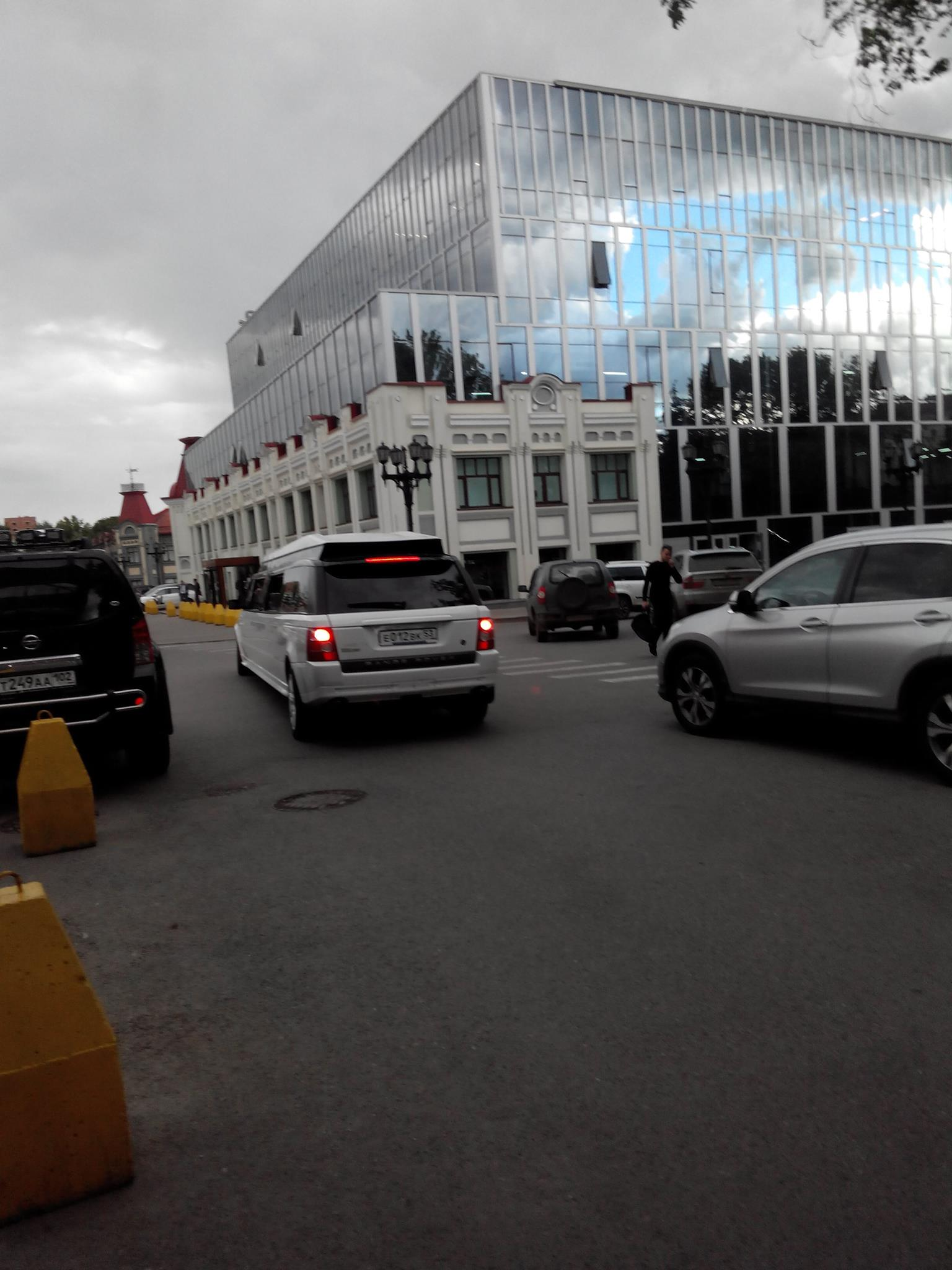 View to Karuanharay in Ufa